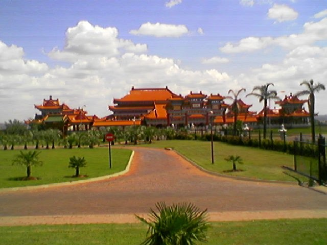 Nan Hua Temple